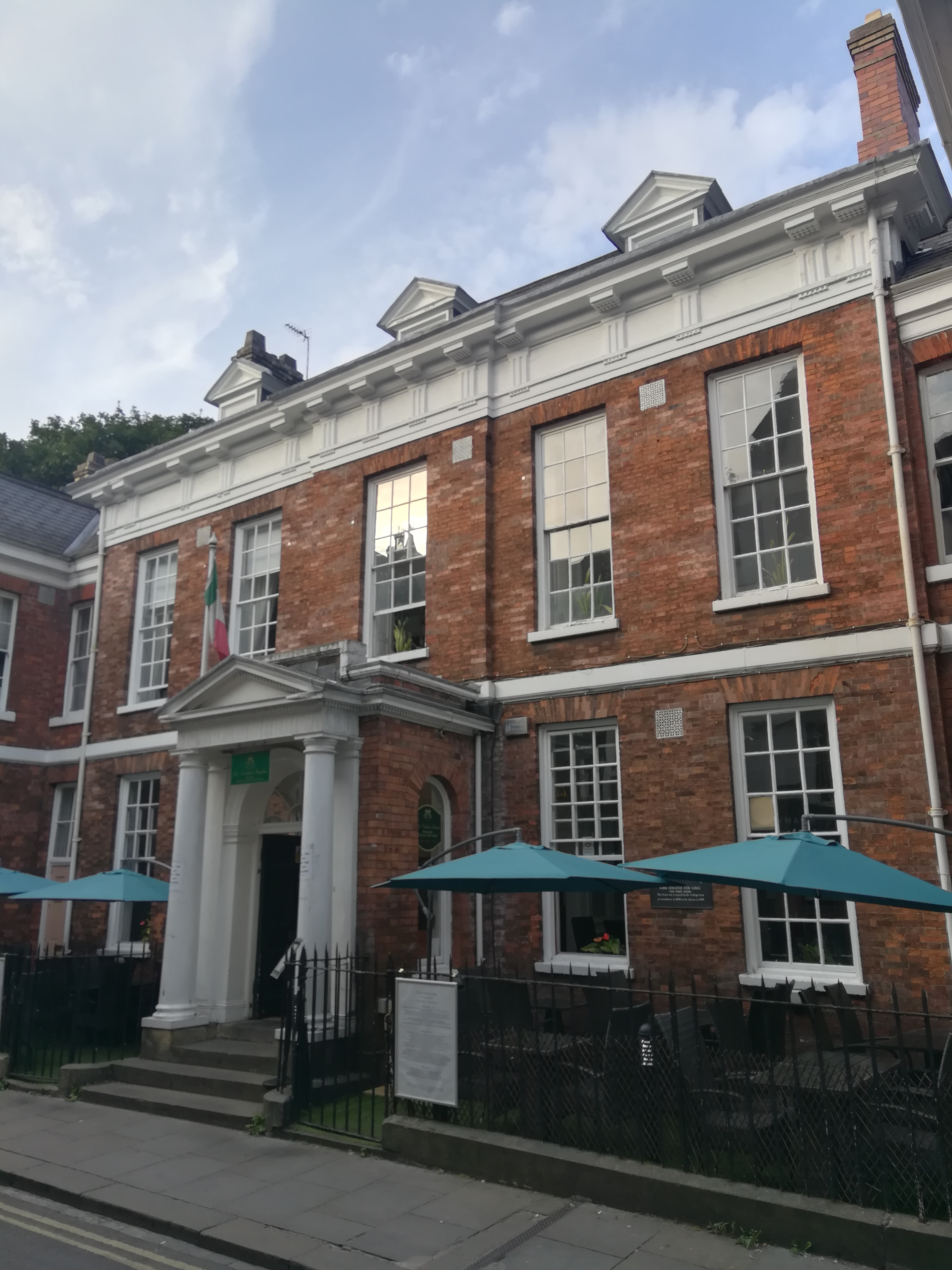 The former York College for Girls, now a restaurant at 62 Low Petergate. A Grade II* listed building.